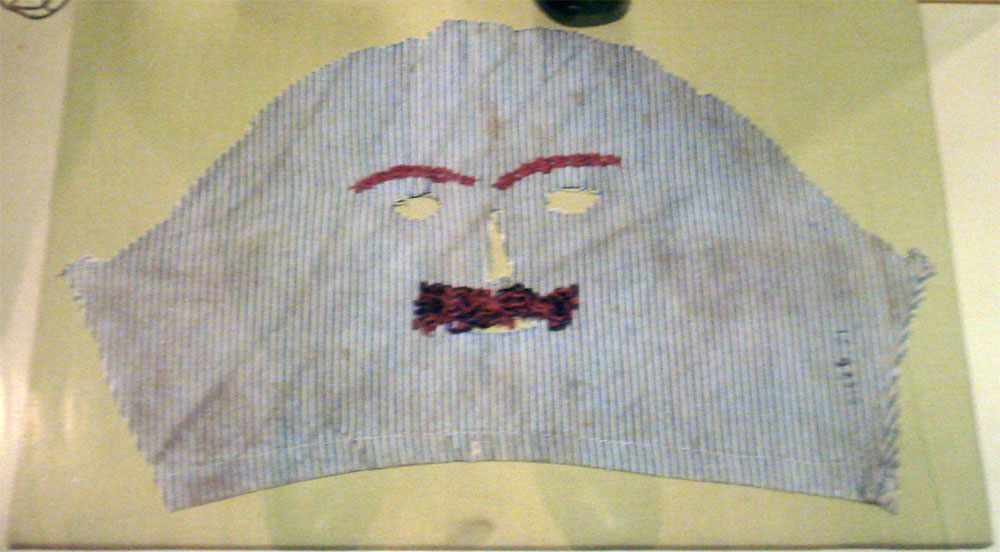 A traditional Irish halloween mask from the early 20th century. Photographed at the Museum of Country Life, Ireland.